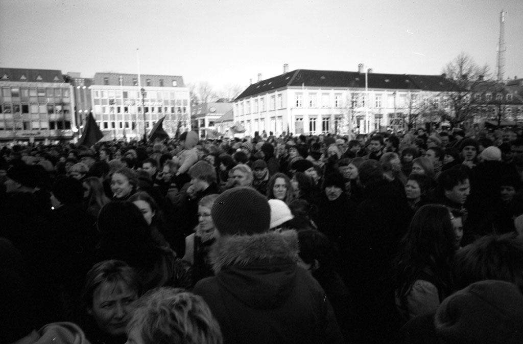 1st of May (Labour day) 2003 in Trondheim, Norway. Photographer's comment: "1. of May 2003 must have been one of the largest in years in Trondheim for several reasons. The Iraq war, and the Norwegian goverments eagerness to join the coalition of the willing, was main one."